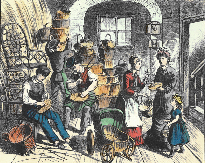 The basket-maker